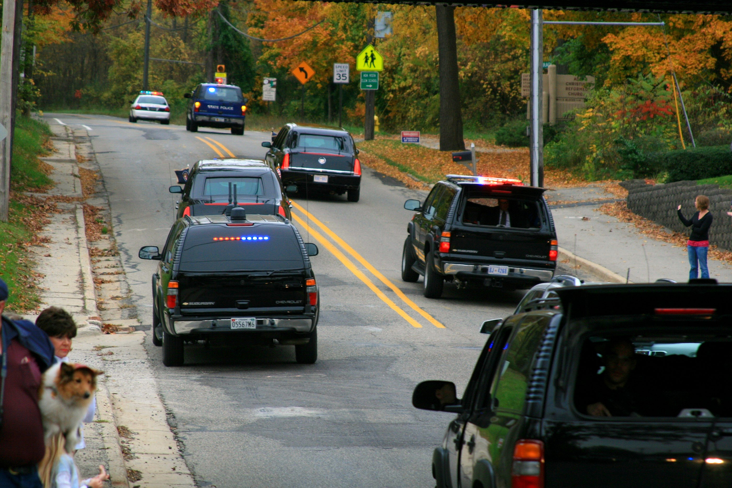 The President's motorcade on Ada Drive going to Dick DeVos's house after having lunch in downtown Ada at Schnitz Grill above the Ada Bike Shop.